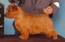 Author: Wildgoose Norfolk and Norwich Terriers (reg'd) Source: Own picture